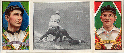 Scan of a 1912 T202 Triple Folder Baseball Card. This card is from the Rocco Albano collection.